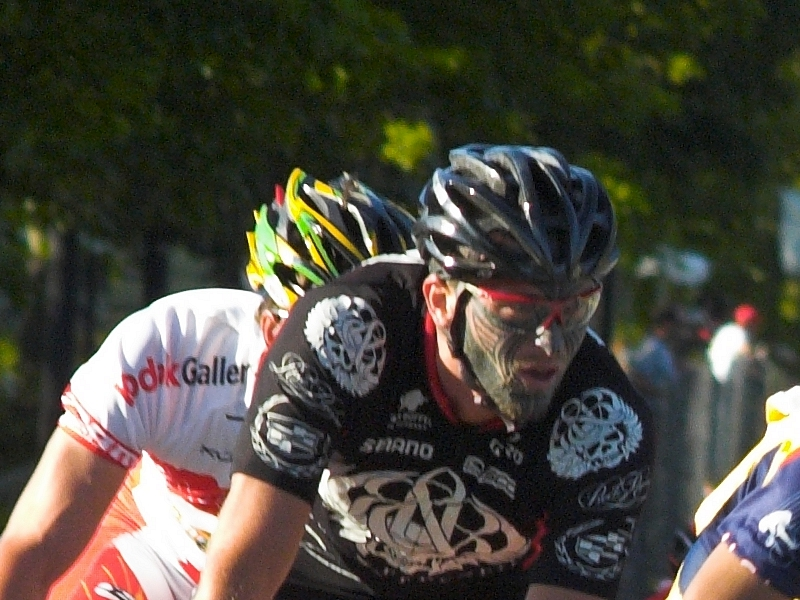 David Clinger from Rock Racing at the Roswell Criterium 2007.